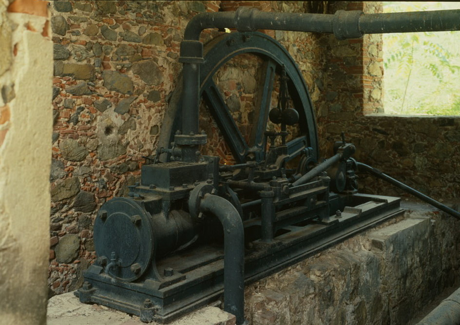 Steam engine located in engine room at Reef Bay sugar factory on St. John, United States Virgin Islands. The engine room was added to the factory in the 1860's.